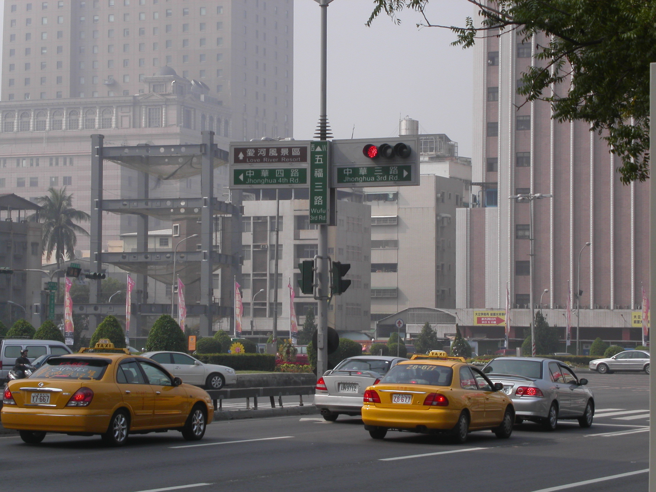 Wufu 3rd Road in Kaohsiung City.